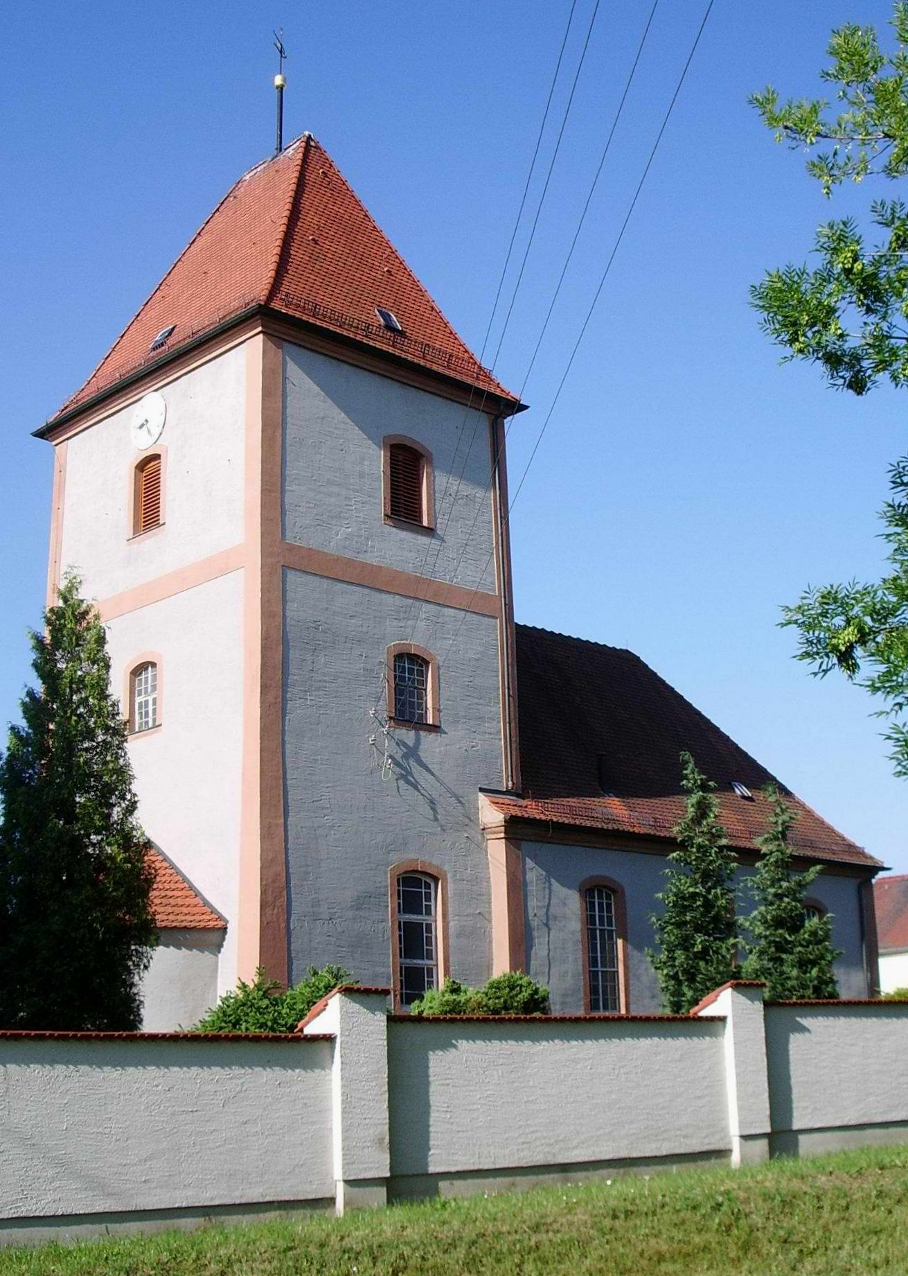 Protestant church in Baalsdorf near Leipzig (Saxony)